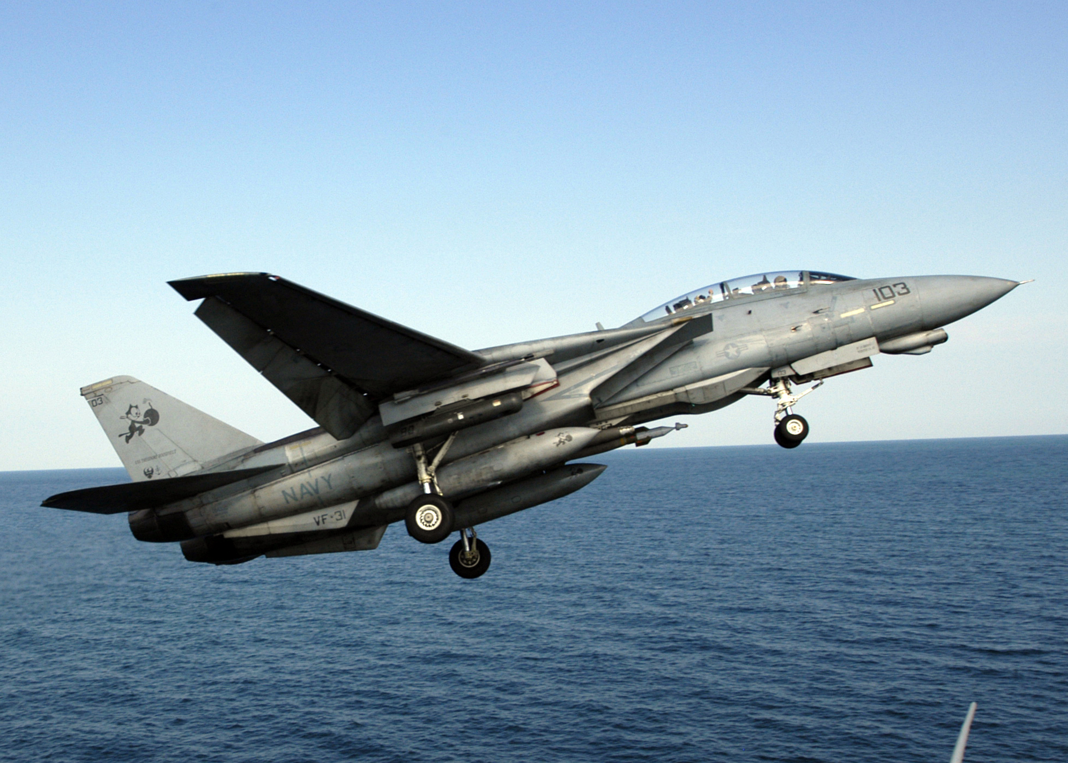 Persian Gulf (Jan. 3, 2006) - An F-14 Tomcat assigned to the “Tomcatters” of Fighter Squadron 31 (VF-31) launches from the Nimitz-class aircraft carrier USS Theodore Roosevelt (CVN 71). Roosevelt and her embarked Carrier Air Wing Eight (CVW-8) are underway during a regularly scheduled deployment, providing close-air support to coalition troops in contact with anti-Iraqi forces, and maritime security operations. U.S. Navy photo by Photographer's Mate 3rd Class Eben Boothby (RELEASED)